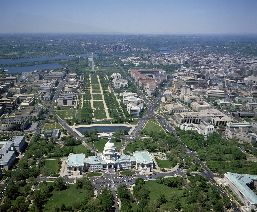 Aerial view from above the U.S. Capitol, looking west along the National Mall, Washington, D.C.